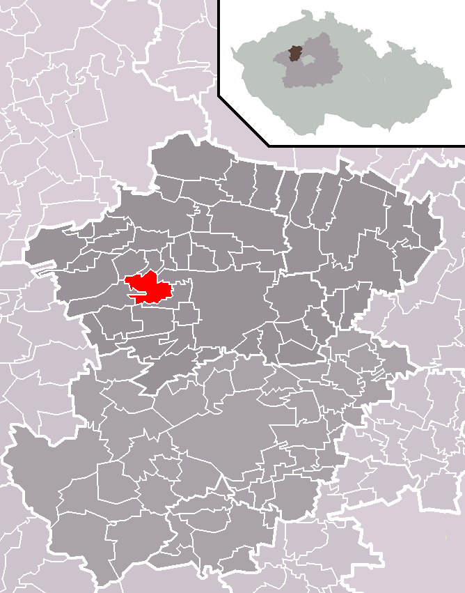 Location of Libovice municipality within Kladno District and administrative area of Slaný as a Municipality with Extended Competence.